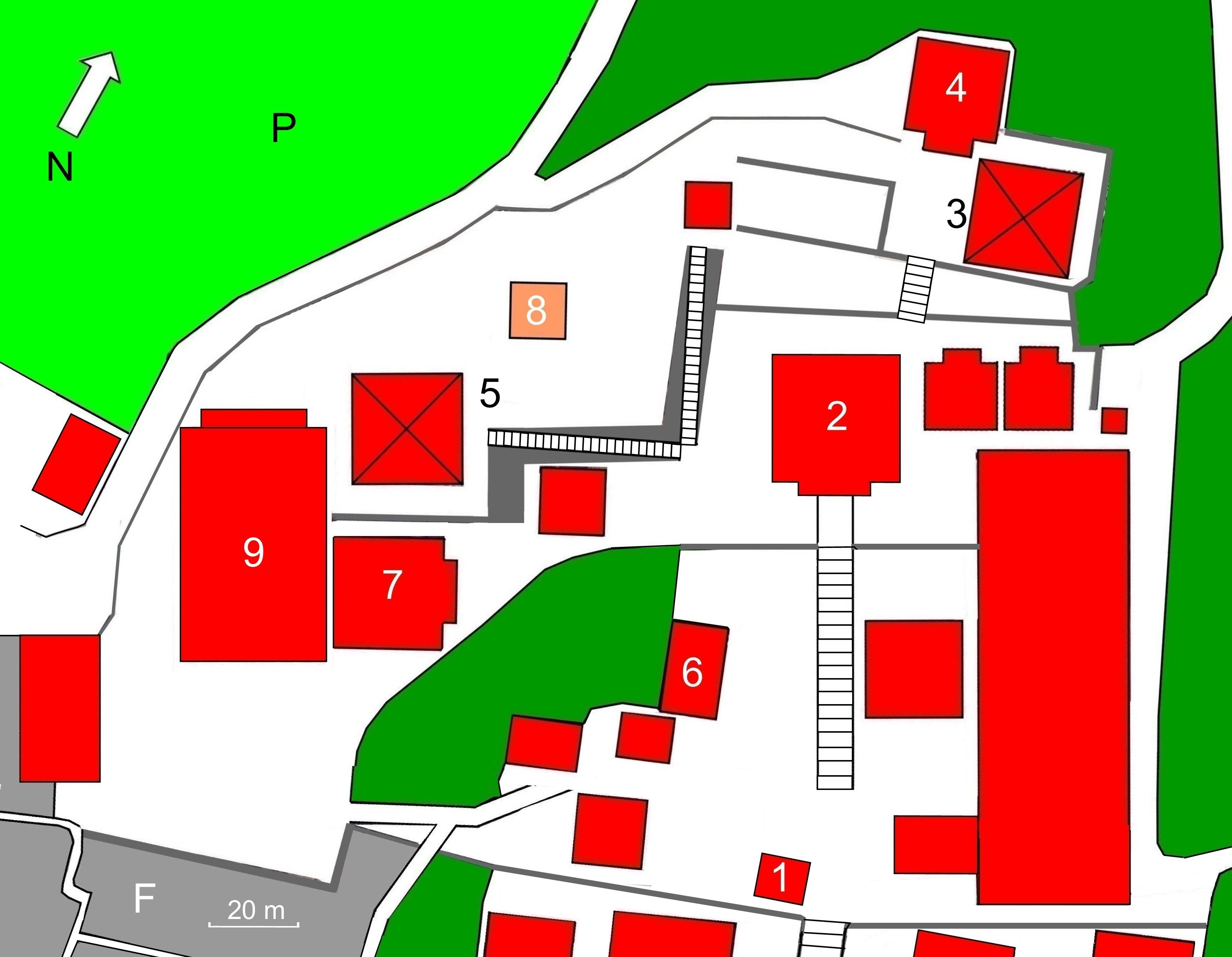 Layout of Nakayama-dera (Takarazuka)